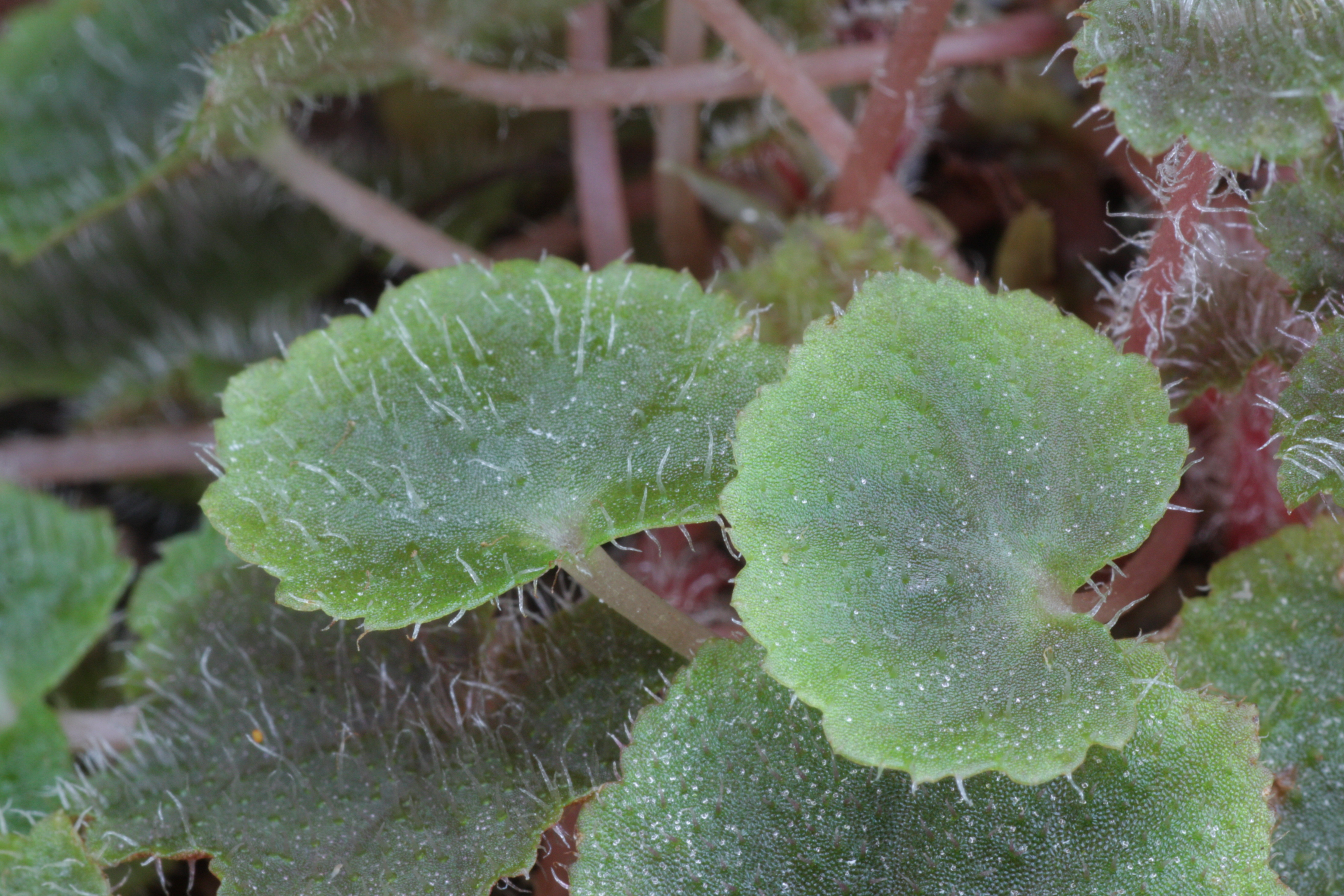 Begonia hoehneana Irmsch. Family : Begoniaceae Accessions : 20071182-39 National Botanical Garden of Belgium Meise Botanic Garden Native nameNationale Plantentuin van België / Jardin Botanique National de BelgiqueLocationDomein van Bouchout / Domaine de BouchoutNieuwelaan 381860 MeiseBelgiumCoordinates50° 55′ 42.28″ N, 4° 19′ 36.78″ E Established1826: established, 1870: became publicly owned,Web page control : Q3052500 VIAF: 159423716 ISNI: 0000 0001 2195 7598 LCCN: n50078011 NLA: 35880480 SELIBR: 120680 WorldCat institution QS:P195,Q3052500 Created under the volunteer photographer program at the National Botanical Garden of Belgium.